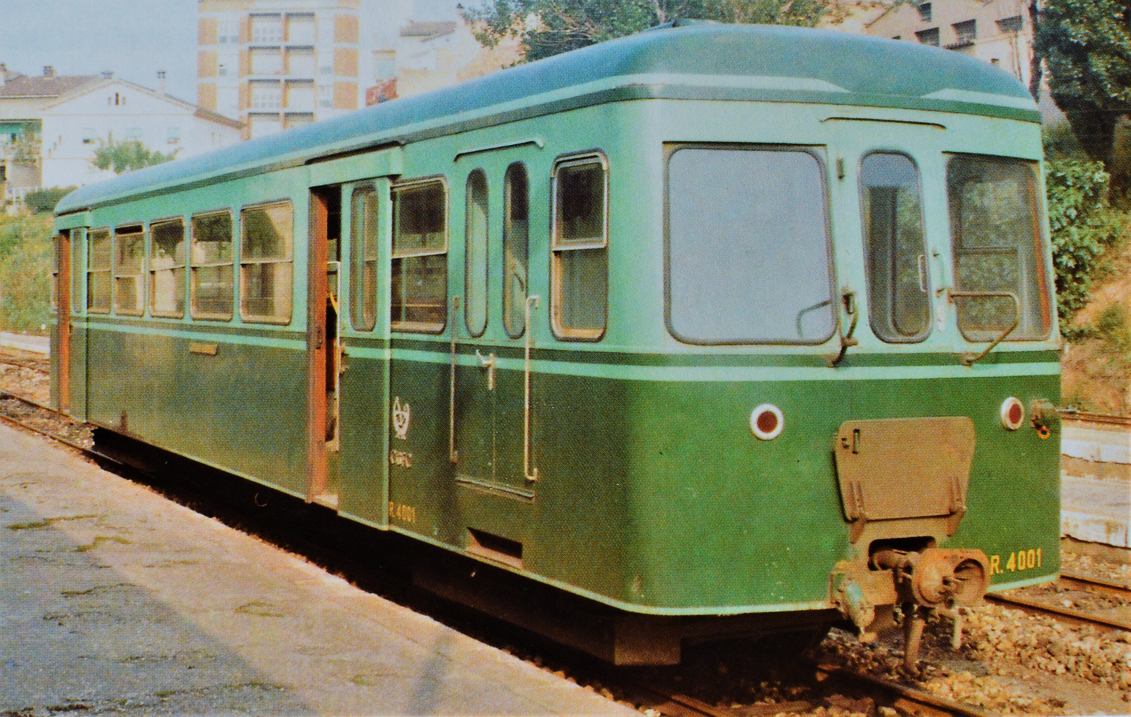 The trailer 4001 of the Compañía General de los Ferrocarriles Catalanes (CGFC), of the Ferrostaal type, at the Manresa Alta station.